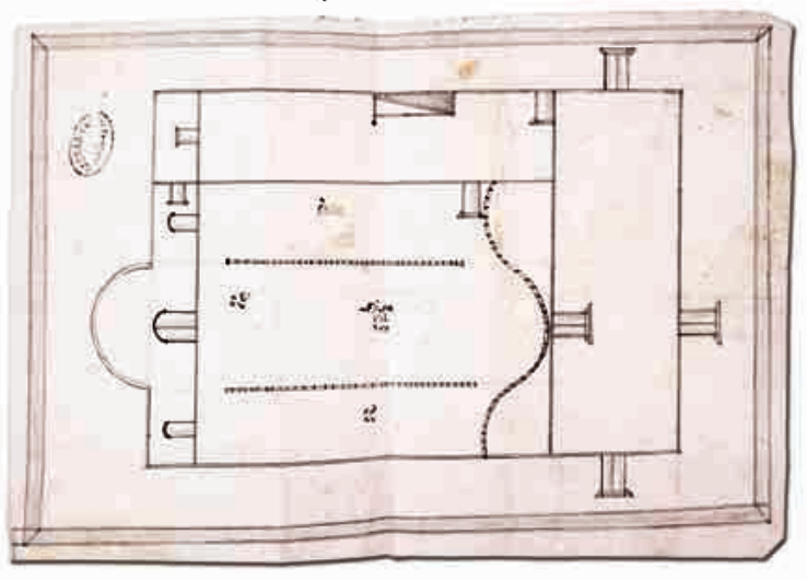 Topographic scheme of Greek orthodox church Panagias, Komotini, Thrace, Greece.